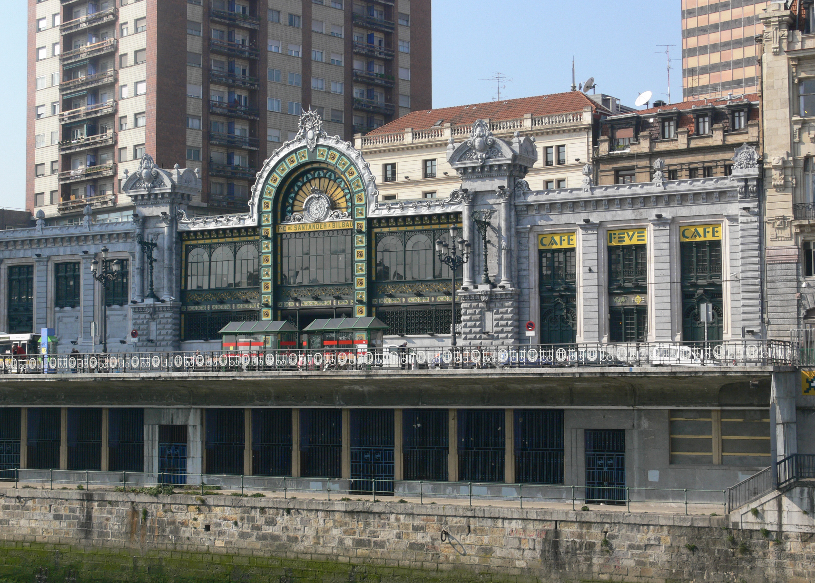 Estación de Santander (former train station), Bilbao.